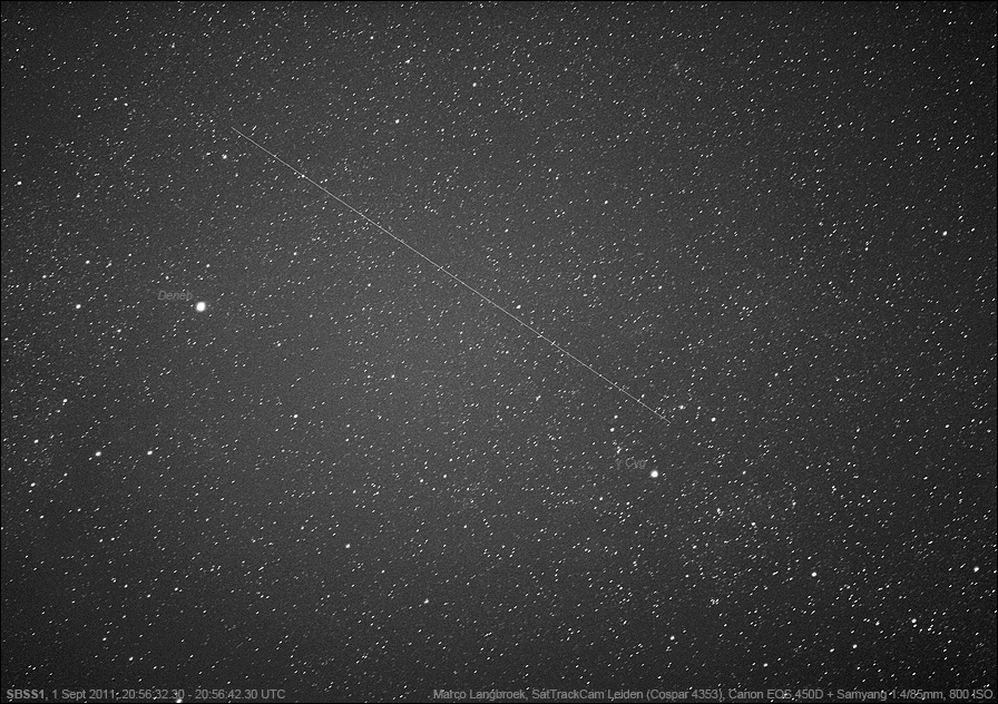 the SBSS 1 satellite passing through Cygnus. Photographed by Marco Langbroek, the Netherlands on September 1st, 2011